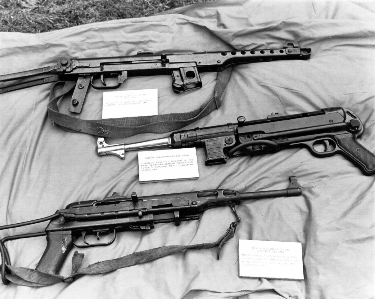 Captured North Vietnam Army weapons. From top to bottom: PPS-43, MP 40, K-50M.